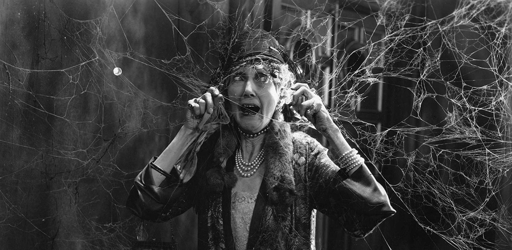 Carrie Daumery in The Last Warning